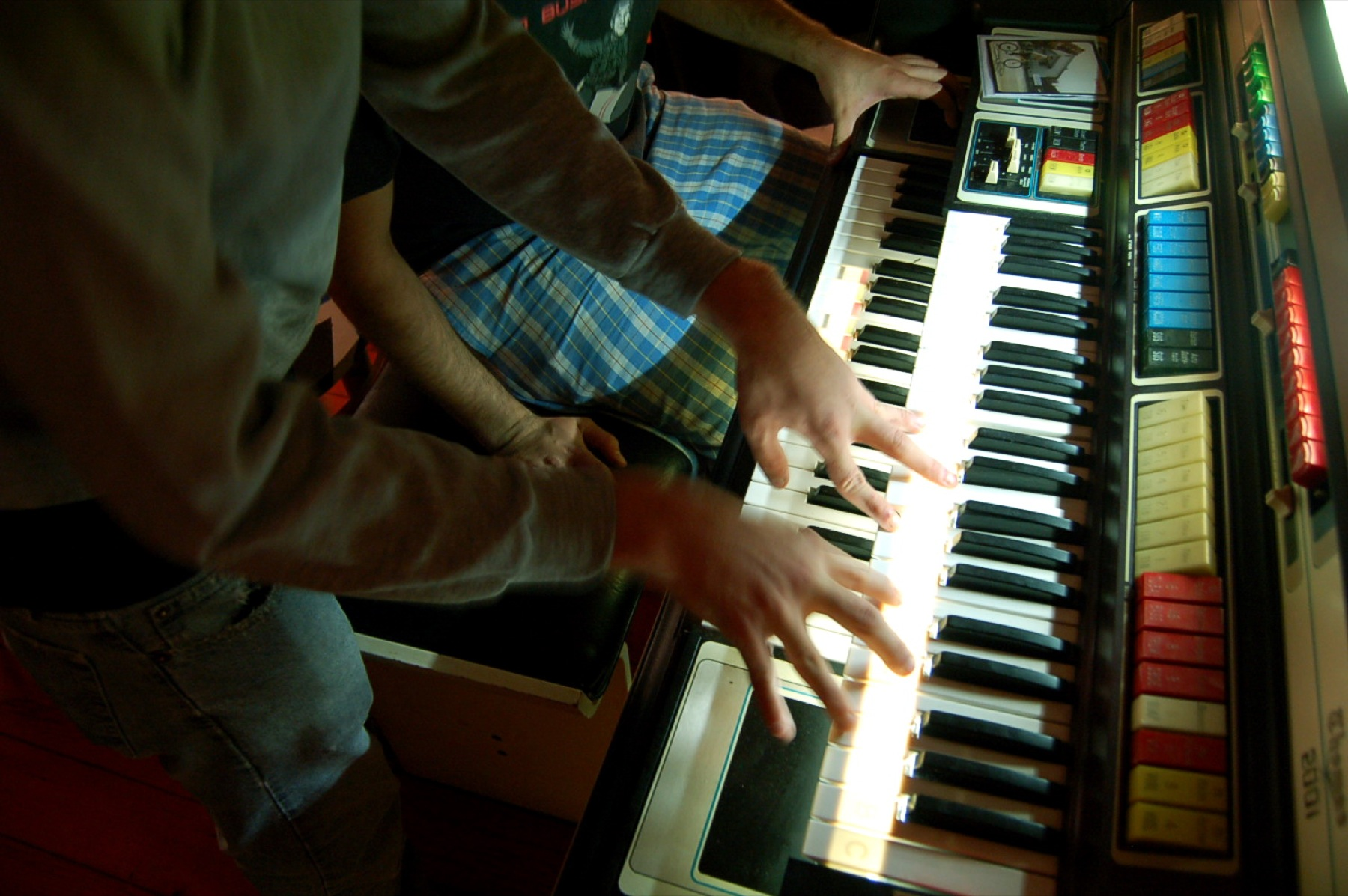 Thomas 2001 (1976)